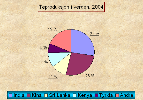 Statistics over tea-production 2004